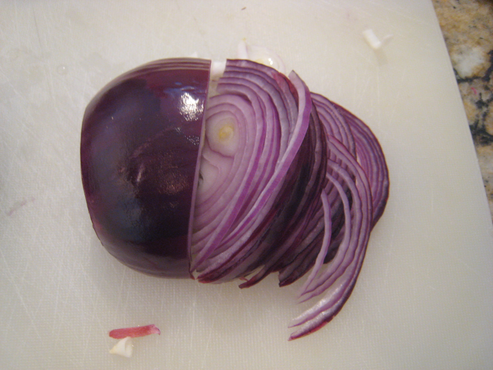 this is an onion cut in half circles accorss like the equator. A julienned red onion would be cut in thin strips from top to bottom or pole to pole